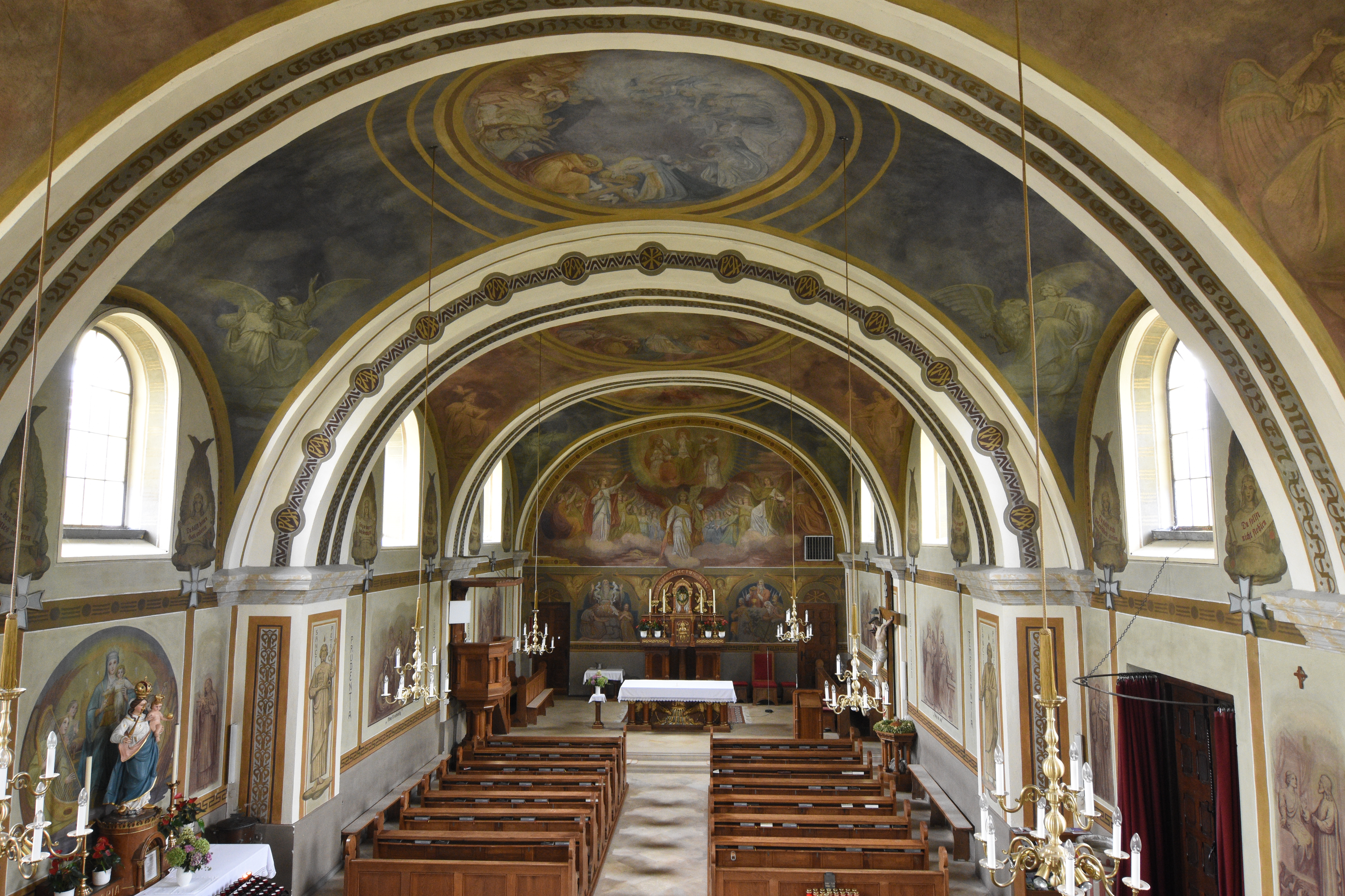 Pfarrkirche St. Michael im Burgenland, interior